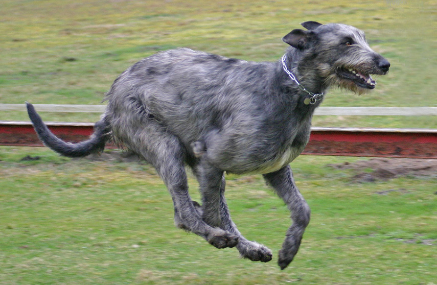 Attila, Irish Wolfhound, propr. Mme Sylvie Saulue